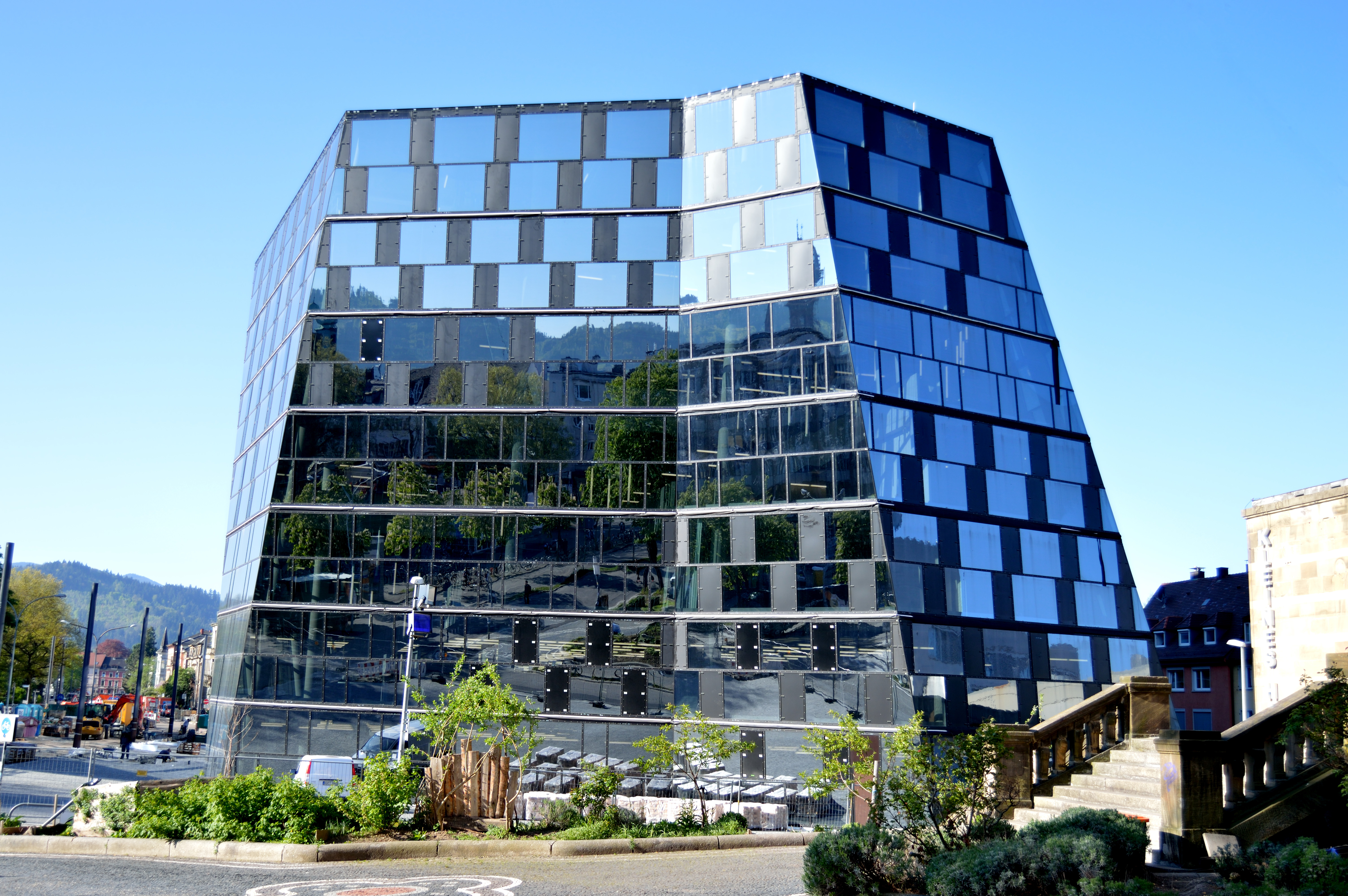 The new build from the university library Freiburg.